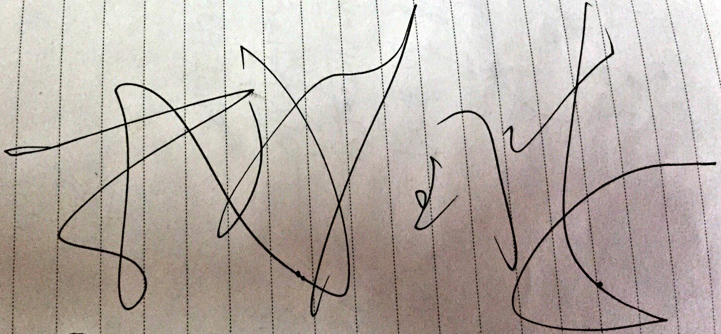 This is Shing Fui On's signature.